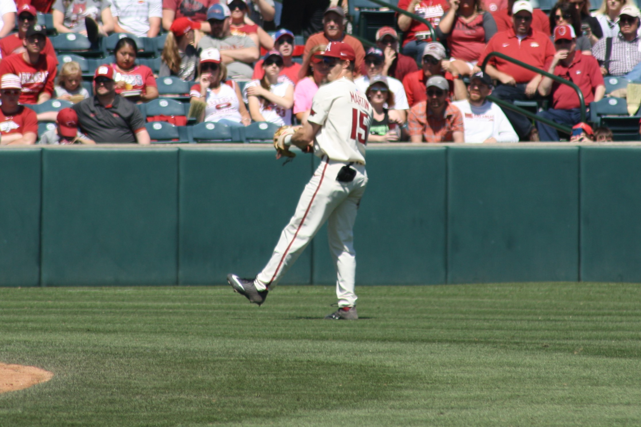 Casey Martin plays short stop for the Arkansas Razorbacks against the Mississippi State Bulldogs at Baum Stadium